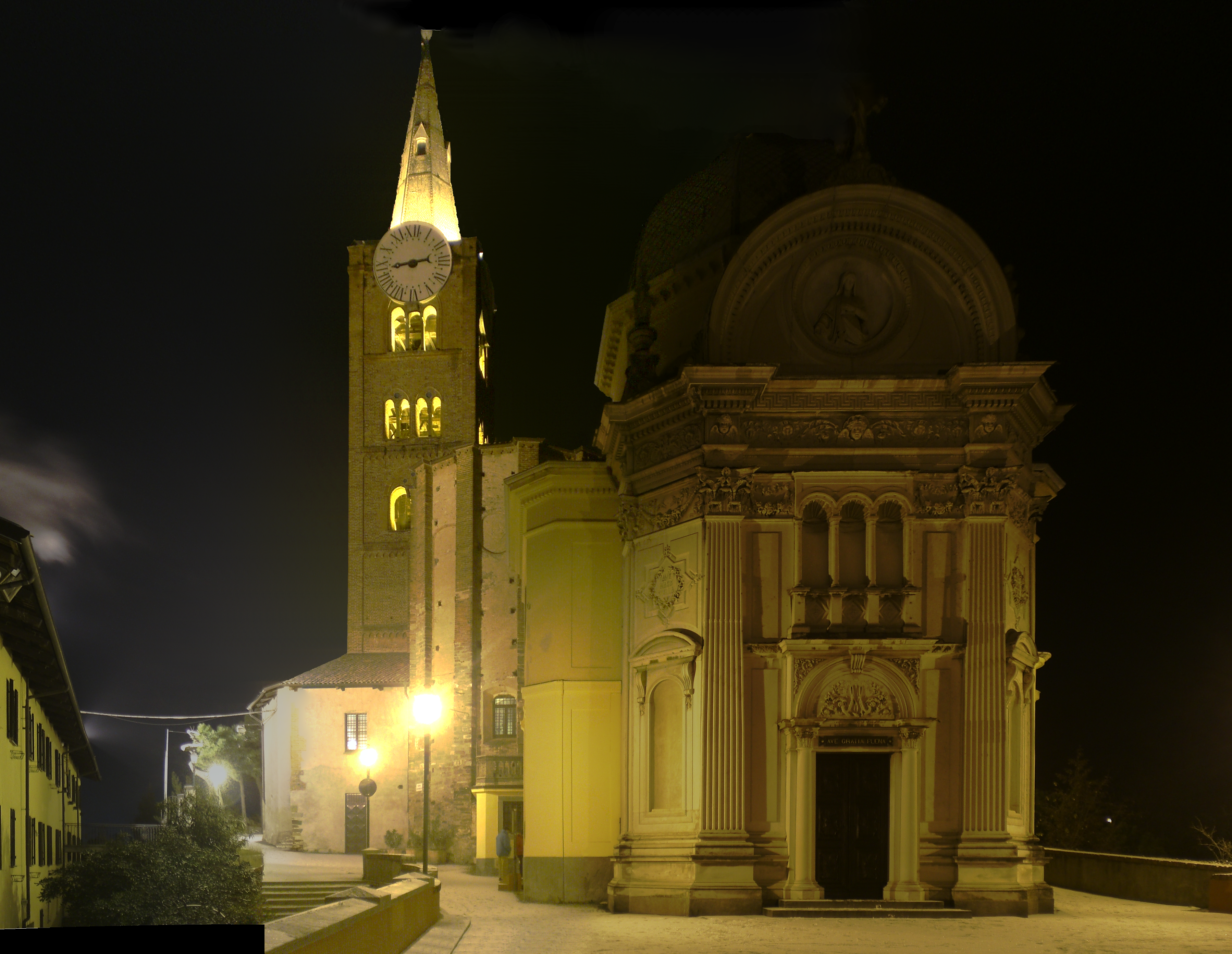 Church of Santa Maria delle Grazie in Pinerolo, a city near Torino in Piedmont, Italy. Chiesa di Santa Maria delle Grazie a Pinerolo, città vicino a Torino, in Piemonte.